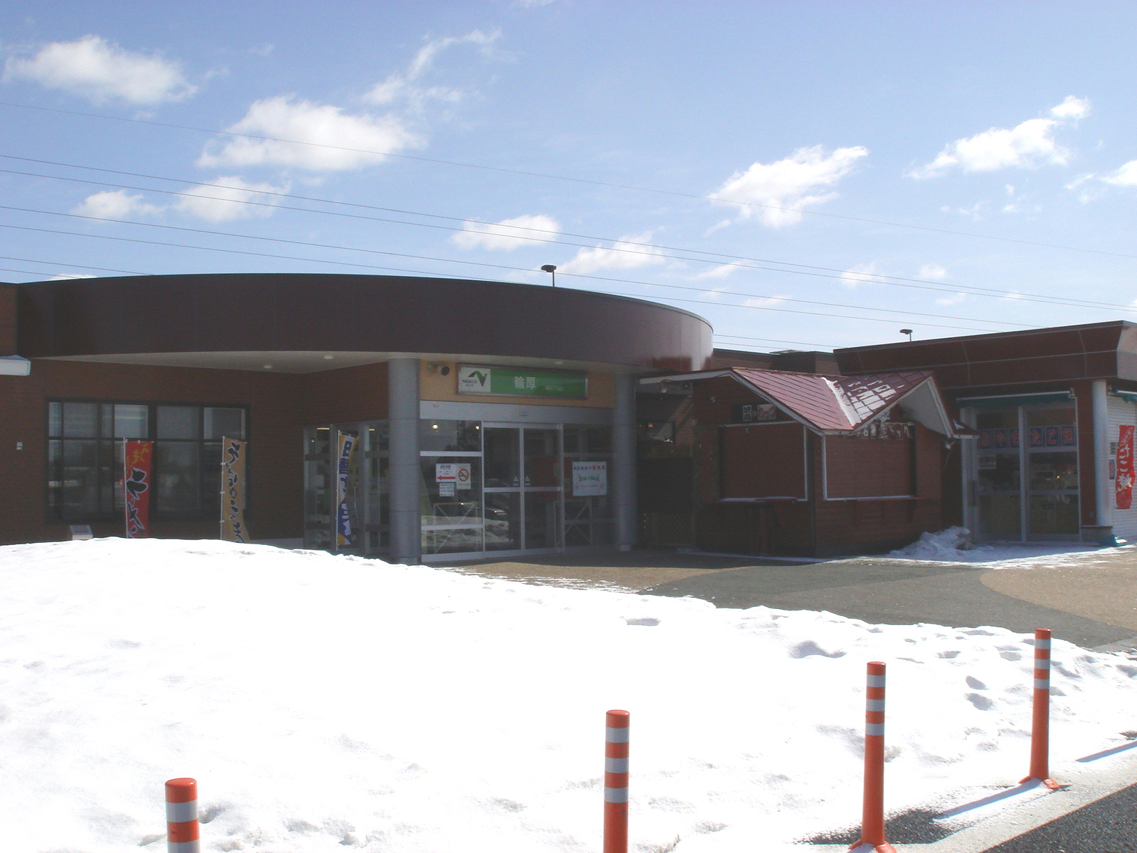 Wattsu Parking Area on the Hokkaidō Expressway inbound line for Hakodate